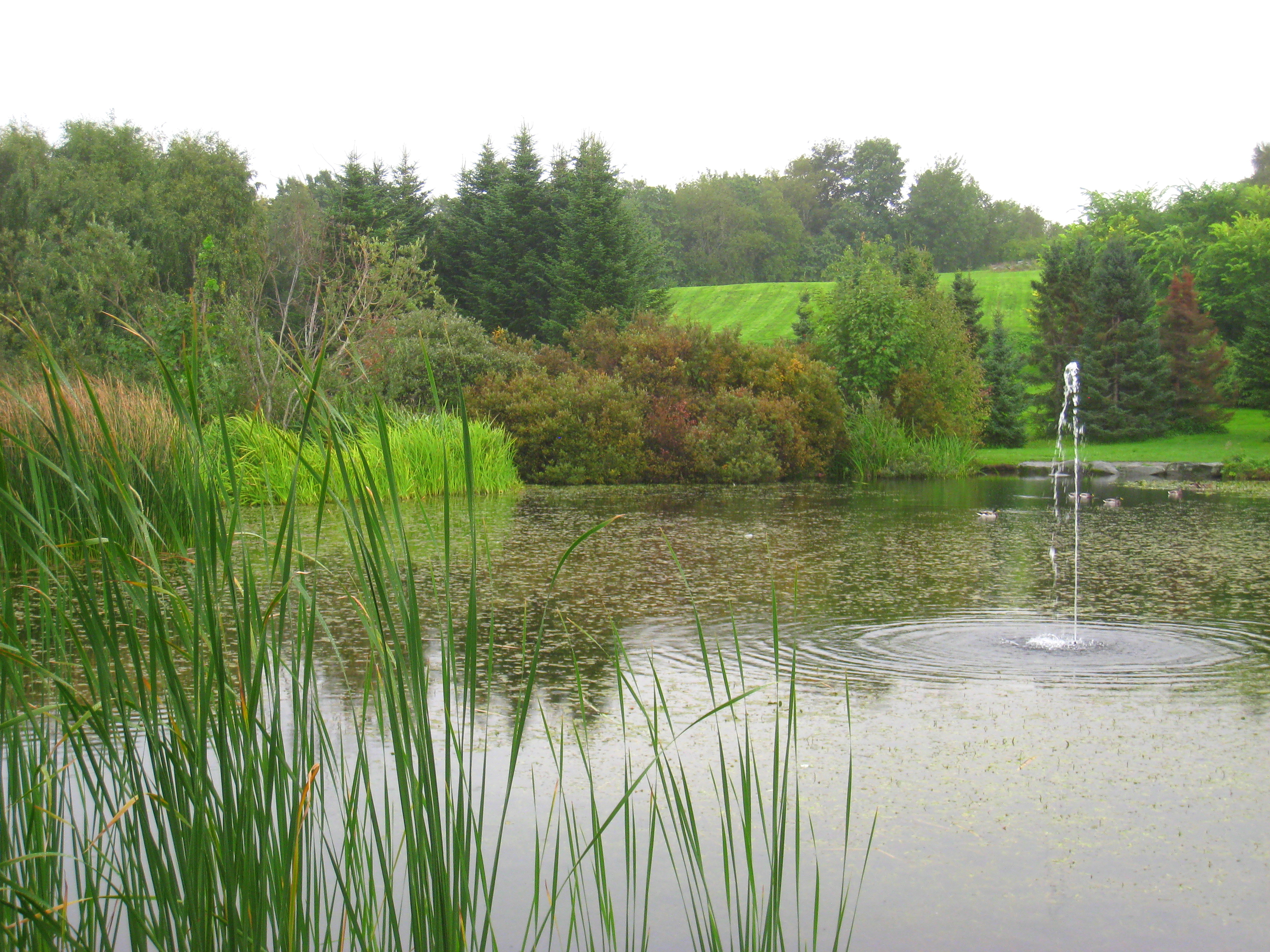 Arboretum at the Ringve Museum, Trondheim, Norway.